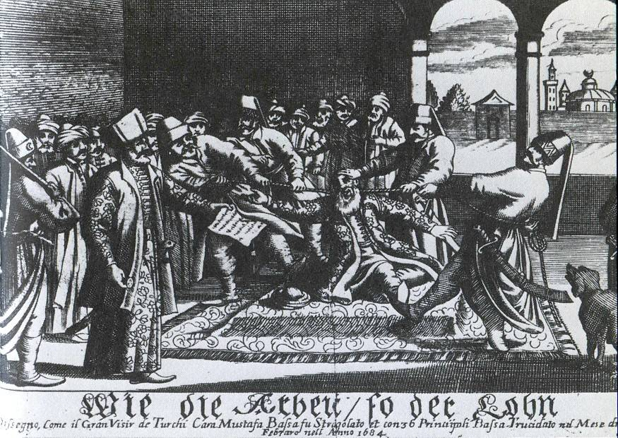 Kara Mustafa Pasha suffered death by strangulation with a silk cord which was the capital punishment inflicted on high-ranking persons in the Ottoman Empire. German Title "Wie die Arbeit, so der Lohn" means "You get paid as you performed", a reference to his disastrous loss at the battle of Vienna.